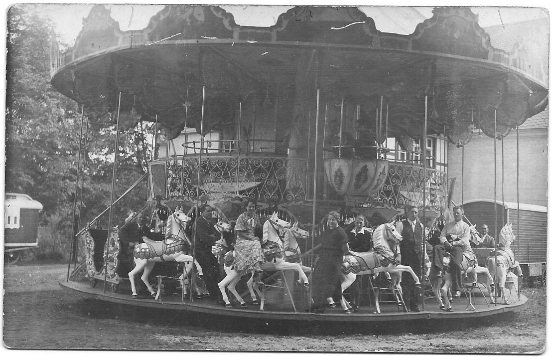 Carousel